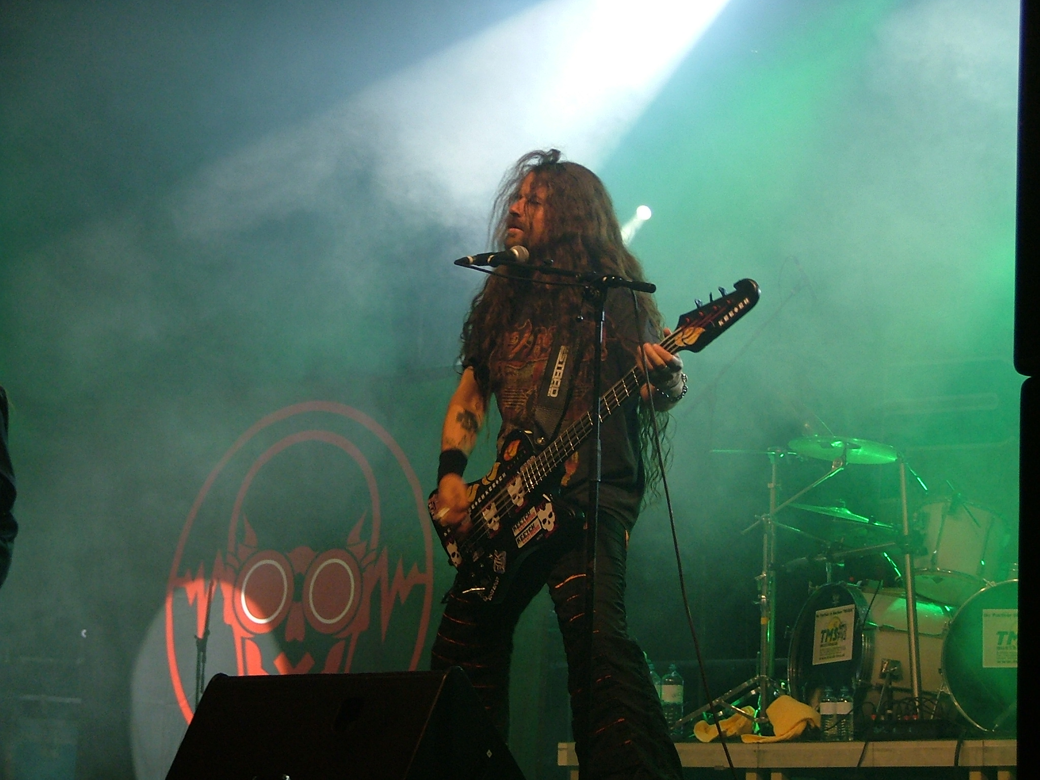 Swedish metal band Pain at 'Rock the Lake' in Finkenstein am Faaker See